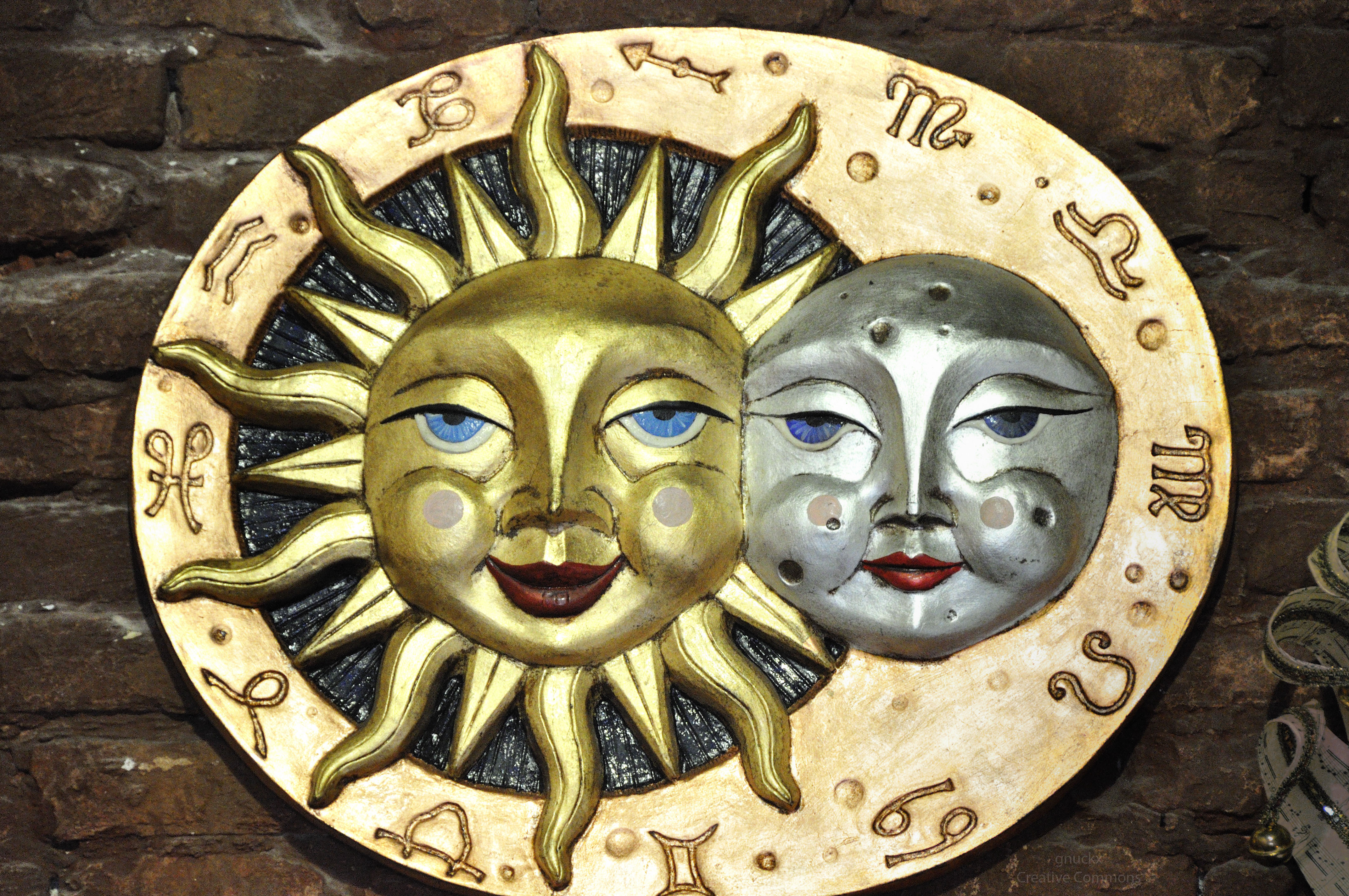 Venetian carnival masks